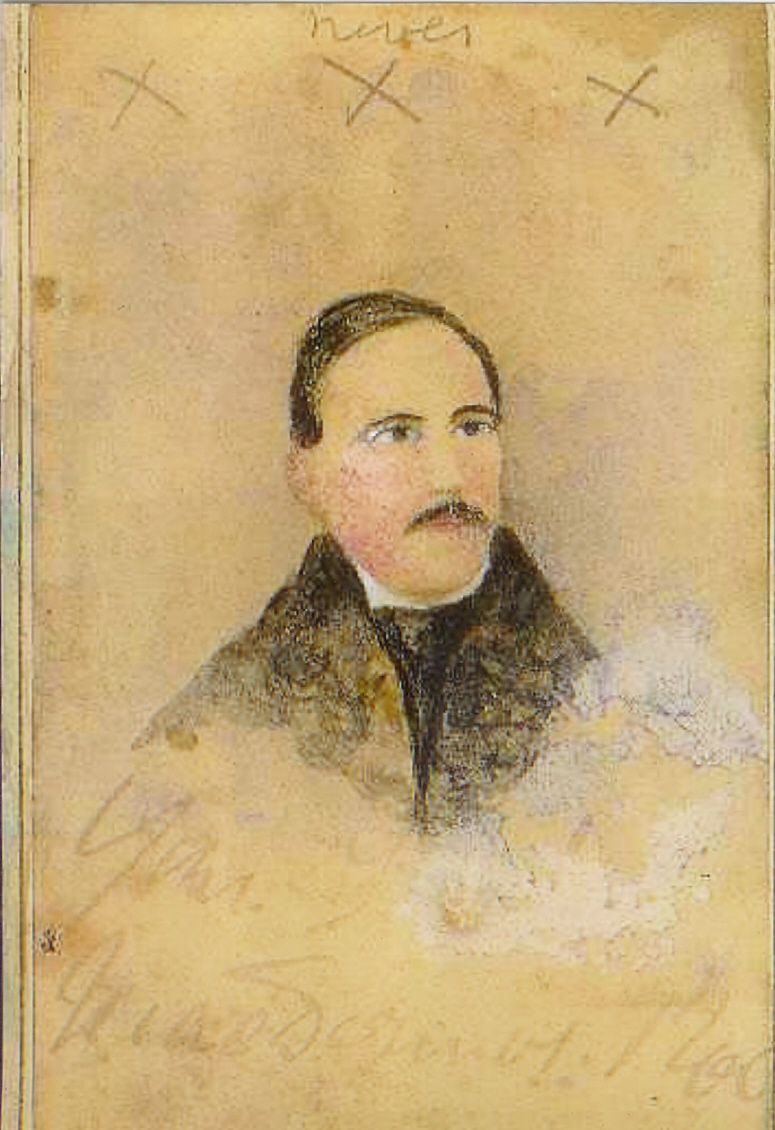 Thomas Charles MacDermot Roe, 1847-1913, was the Anglo Irish chieftain of the MacDermot Roe family from 1855-1913. He served as High Sheriff of County Roscommon and Justice of the Peace of the Counties Roscommon and Sligo. He was succeeded by his brother Ffrench Fitzgerald MacDermot Roe. Since neither had male heirs, the line went extinct in 1917.